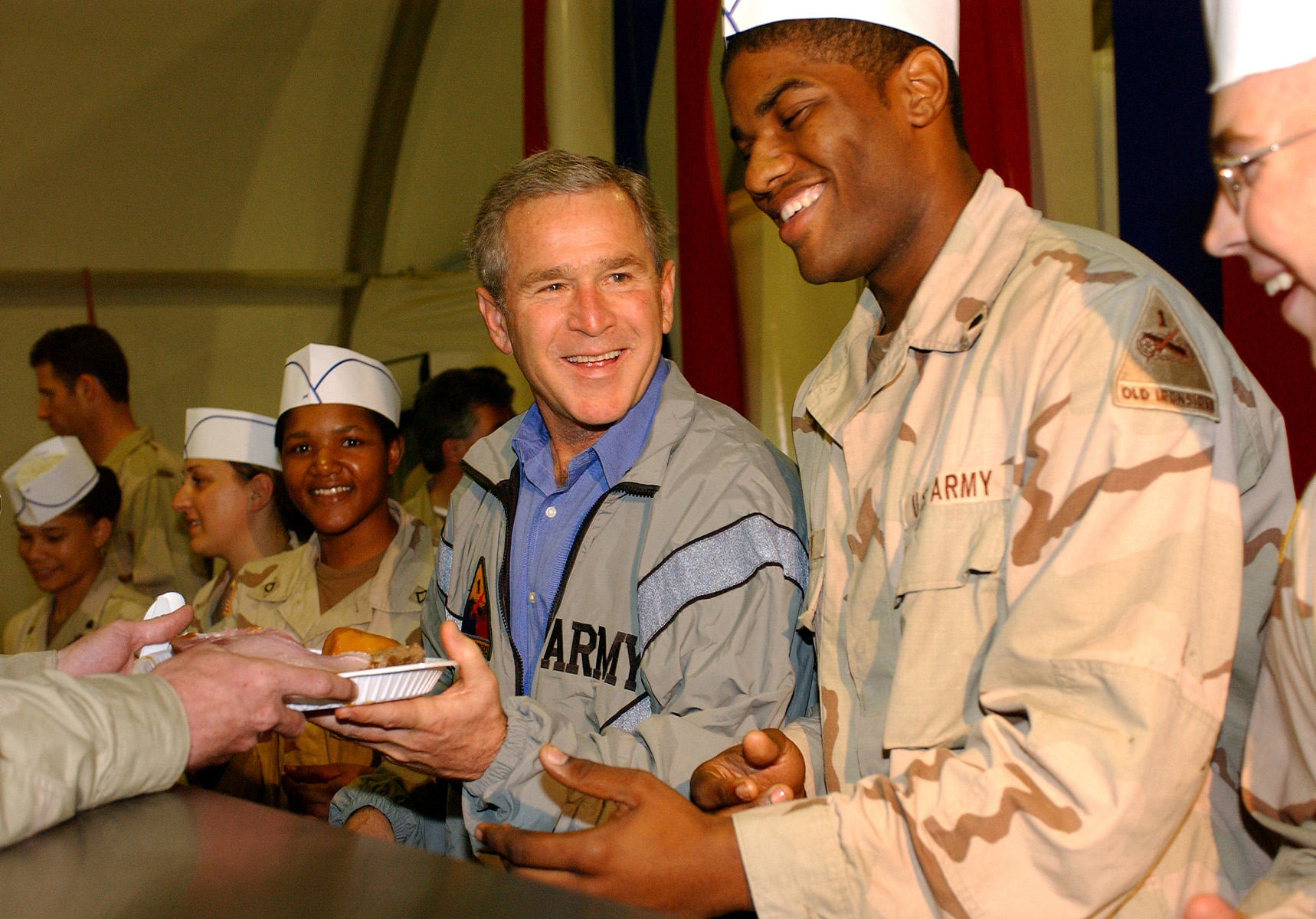 Baghdad, Iraq (Nov. 27, 2003) -- President George W. Bush pays a surprise visit to Baghdad International Airport (BIAP). He gives an uplifting speech at the Bob Hope dining facility on Thanksgiving Day to all the troops stationed there. After his speech, troops were given the opportunity to get their photos taken with President Bush. The President also served a traditional Thanksgiving dinner to the troops. U.S. Air Force photo by Staff Sgt. Reynaldo Ramon. (Released)